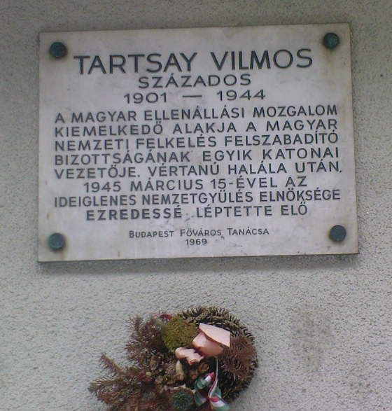 Vilmos Tartsay commemorative plaque in Budapest District XII, Tartsay Vilmos Street No 21